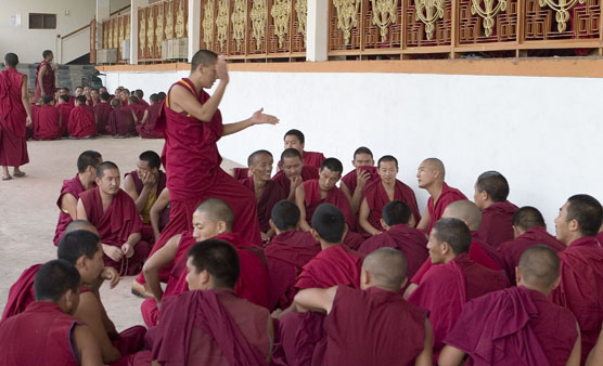 Monks debating in the shade of Ganden prayer hall, in Karnataka. Photograph by User:20040302 December 2005.